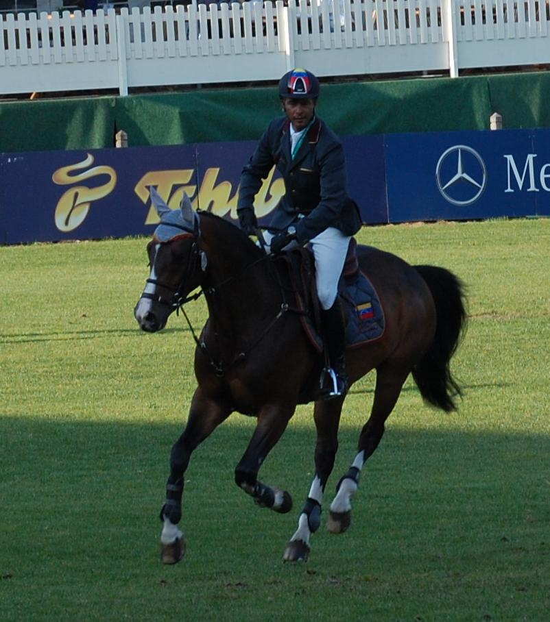 Venezuelan rider Pablo Barrios with Con Air, young horse competition (CSIYH 1*) in the context of the CSI 5* Hamburg 2011